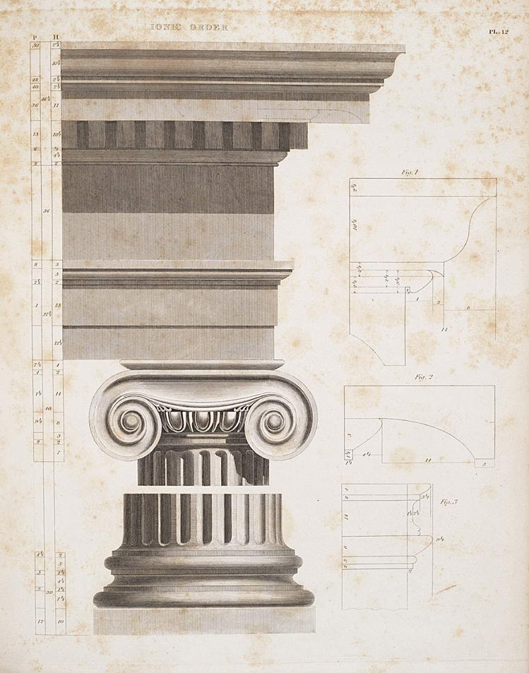 Ionic Order, Plate No. 12